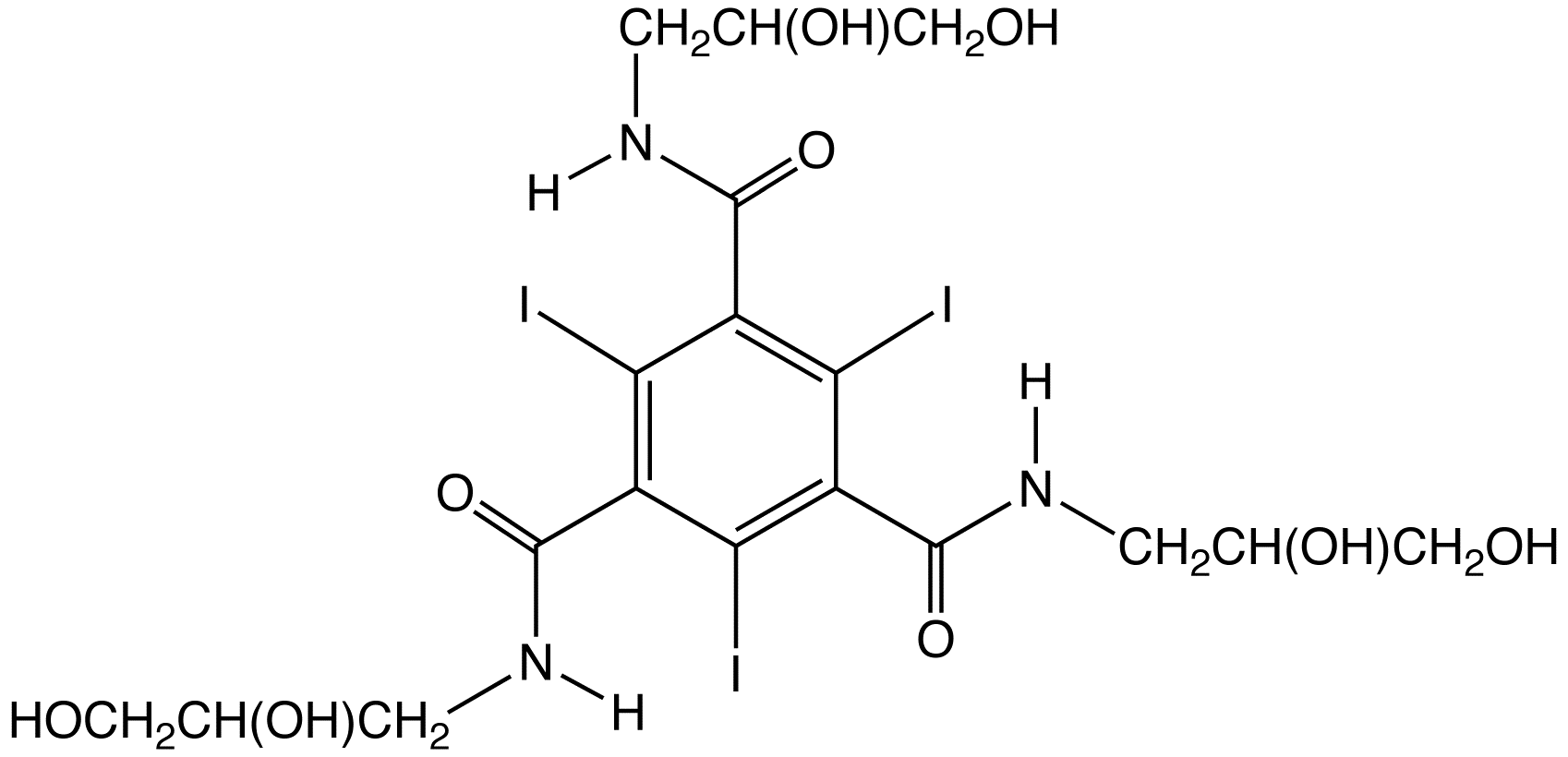 structure of iodine contrast agent called iodoversol